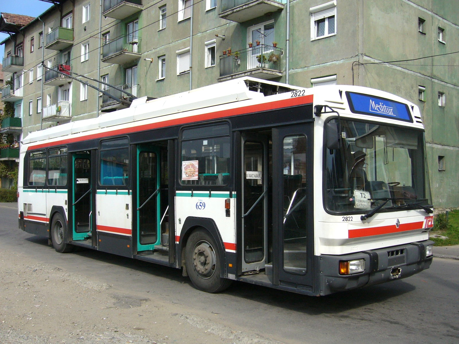 Mediaş, Romania, trolleybus 659 is a 1977 Berliet ER100R built for the Lyon trolleybus system (in France), and originally numbered 1906 there. It was given a modernized front end (and renumbered 2822) during refurbishment in Lyon in 1994/95. Mediaş acquired it in 2004, along with several other ex-Lyon Berliet trolleybuses, and renumbered it 659. However, even in this 2007 photo, it is still showing its Lyon fleet number (in addition to its Mediaş number) and wearing its Lyon livery, but it now has a permanent sign with the name of the Mediaş operator, Meditur, in its signbox. The trolleybus is shown in service on route T2.